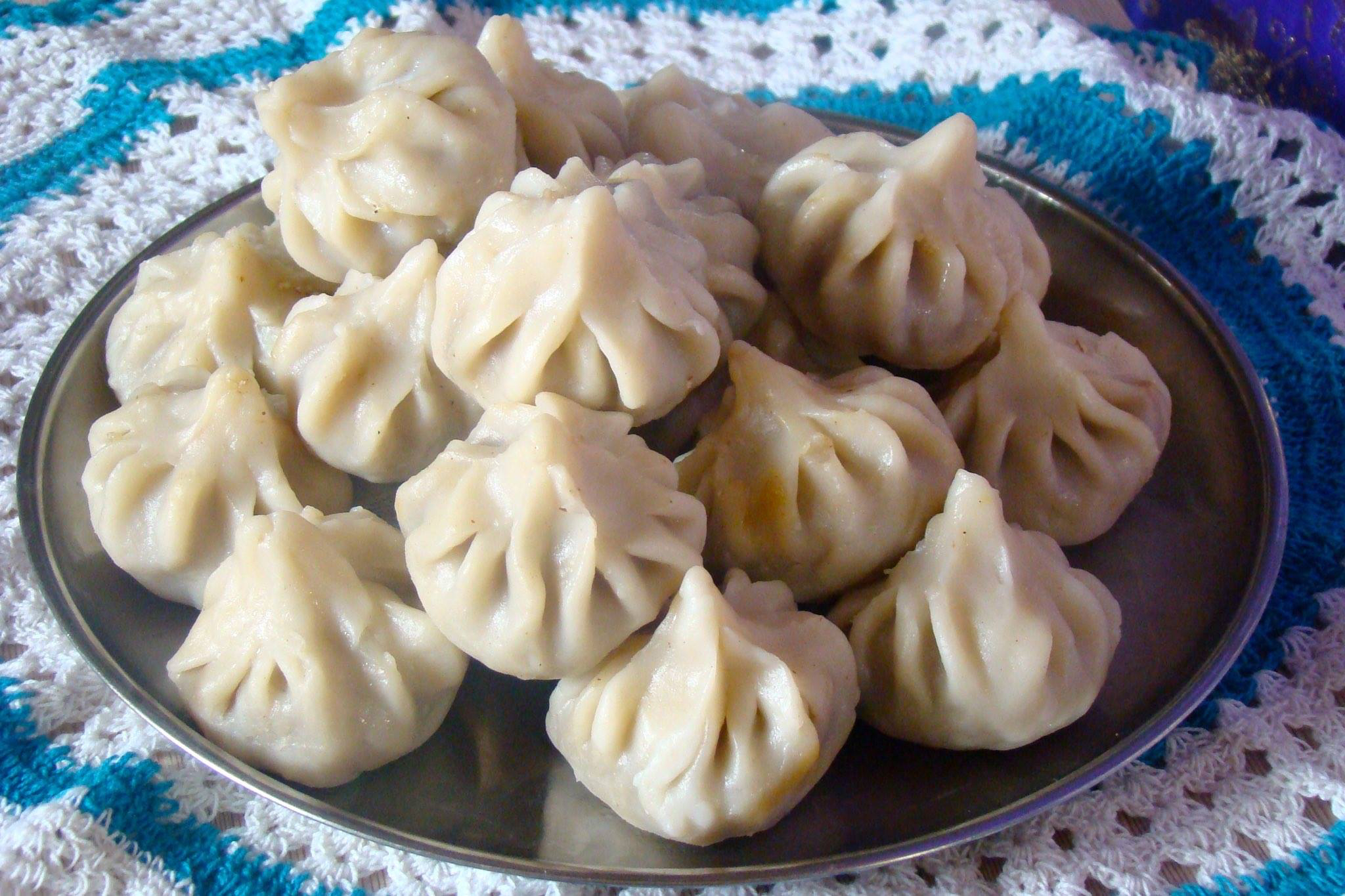 Dessert from Maharashtra typical from Konkan area, which is also considered as favorite food of Lord Ganesha. It's served with melted ghee. It's steam cooked riced coating stuffed with a sweet mixture of coconut crushings and jagury with dryfruits.